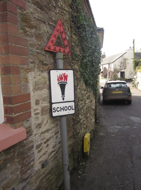 An old torch sign for a school opposite the church in Blackawton. The oldest school sign in Devon and was restored by the Parish Council.